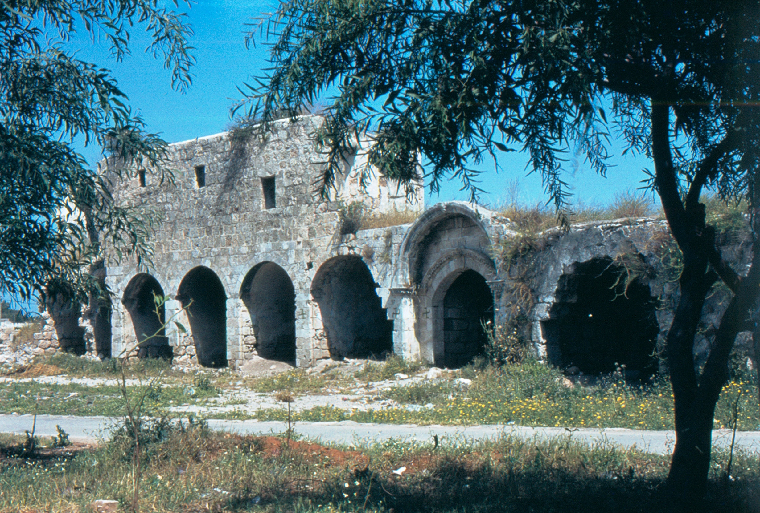 Haan_Lod